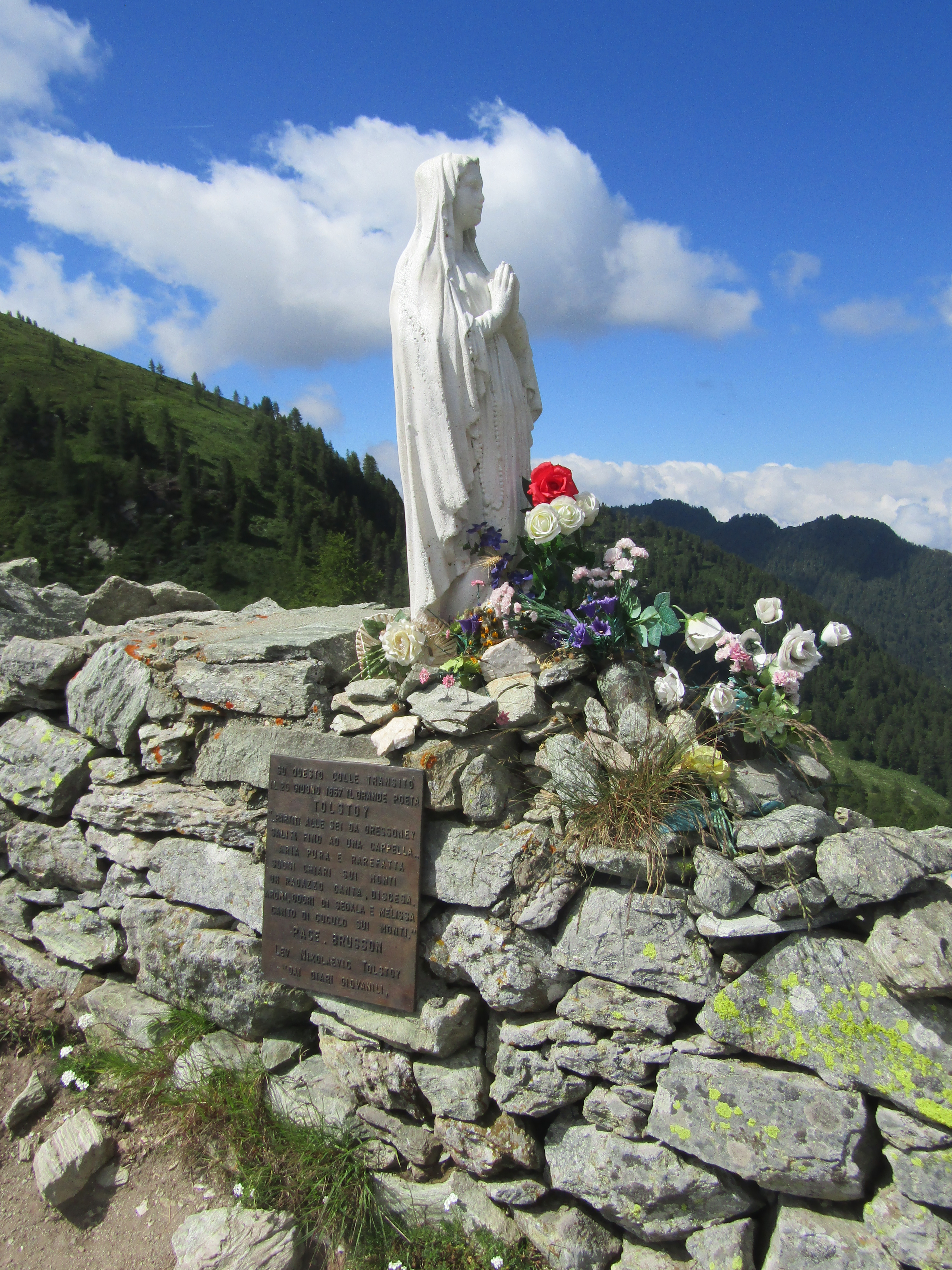 Colle Ranzola (Pennine Alps, Italy): Madonna statue and memorial tablet to Lev Tolstoj